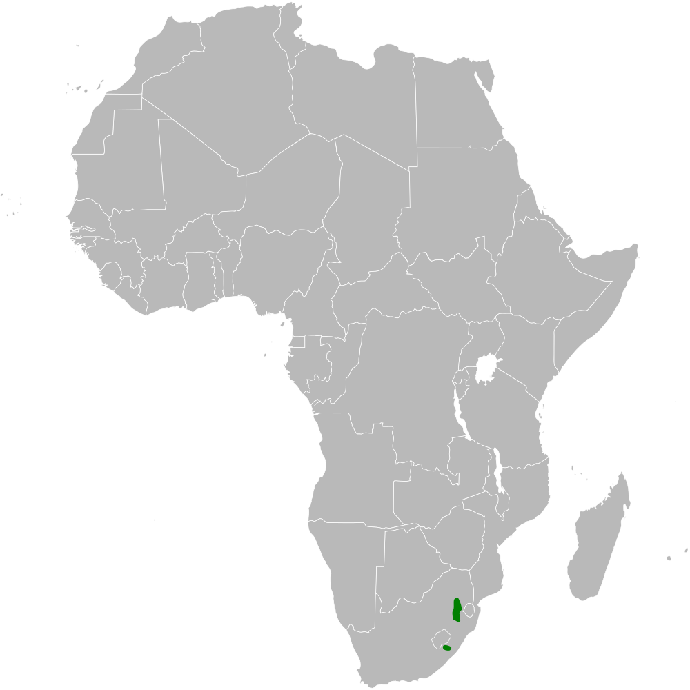 Heteromirafra ruddi distribution map based on the reference given below.[1] ↑ (1997) The Atlas of Southern African birds: Vol.2 Passerines, Johannesburg: BirdLife South Africa, p. 26 Retrieved on 4 November 2016. ISBN: 0-620-20730-2.